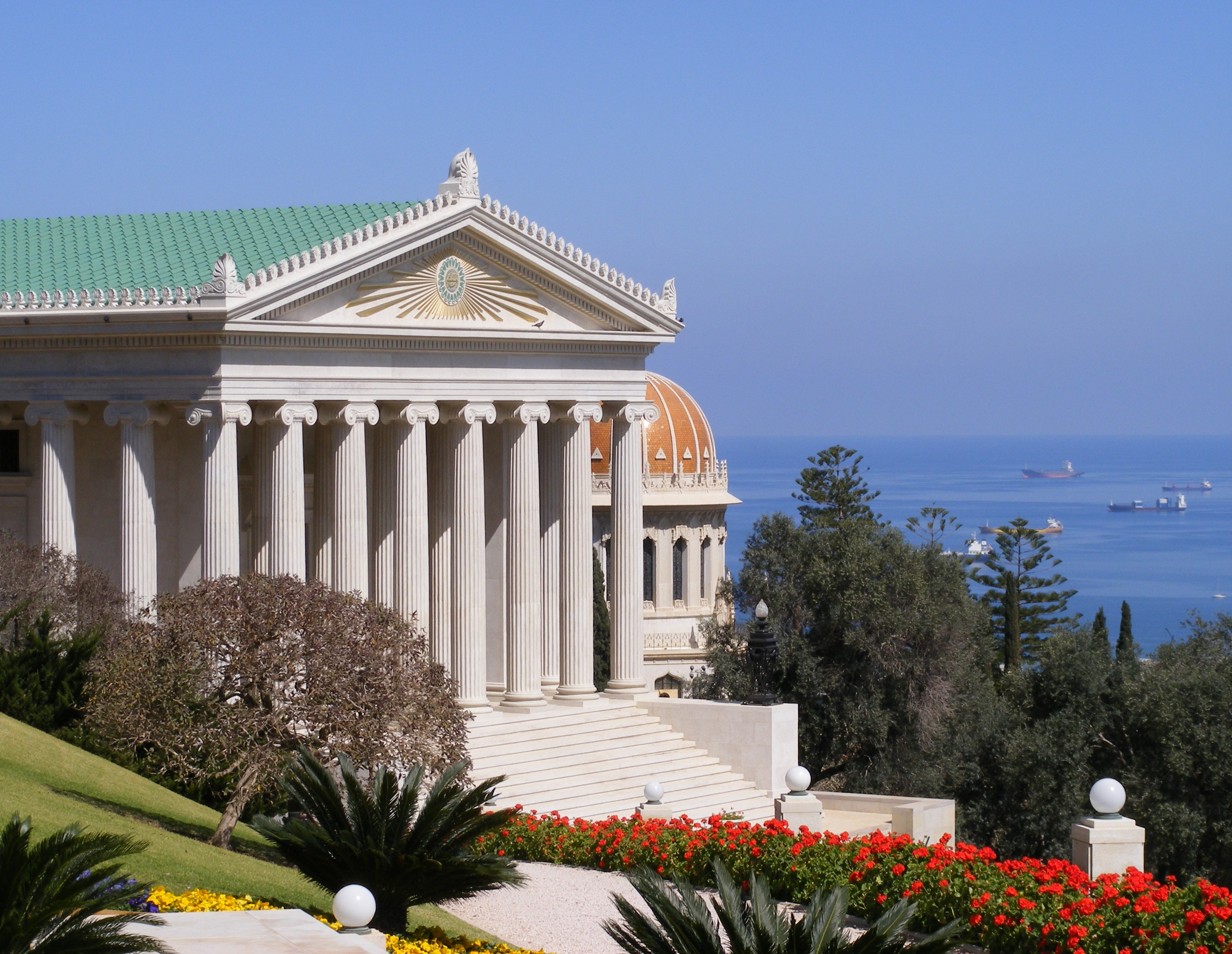 The International Bahá'í Archives building, overlooking the Shrine of the Báb and the Port of Haifa.